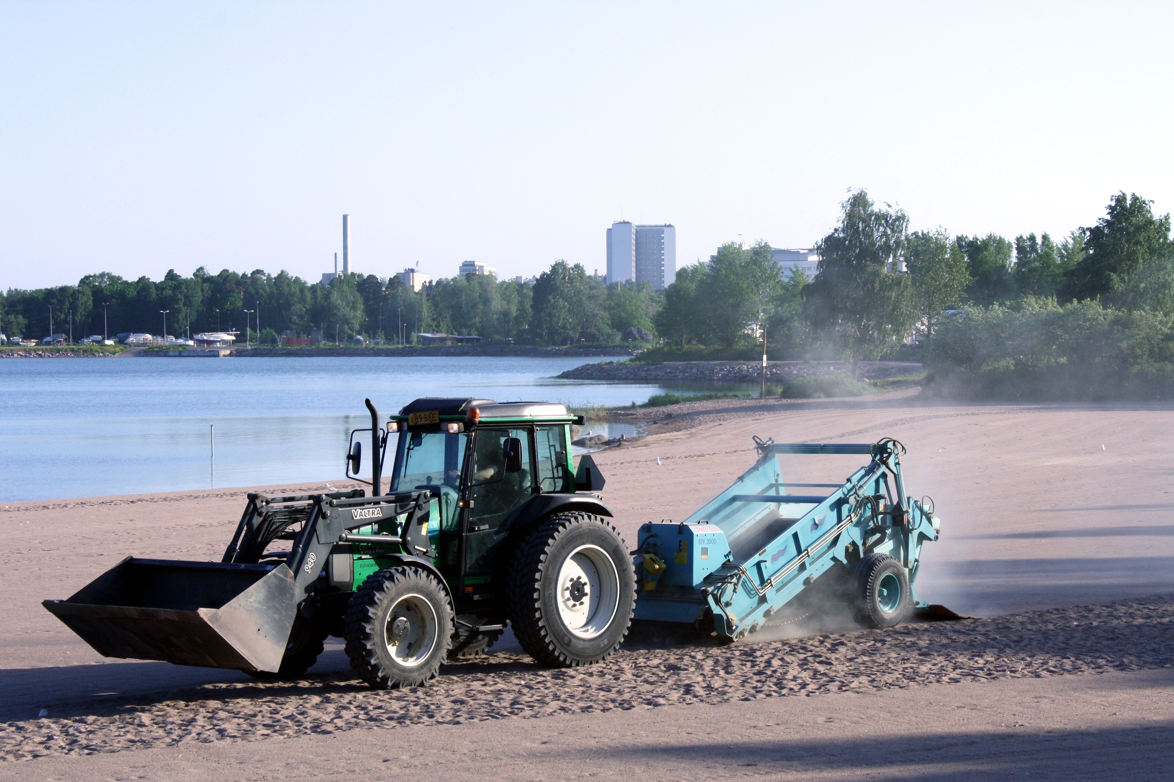 A tractor-pulled beach cleaner raking Hietaniemi Beach early in the morning; Helsinki, Finland..